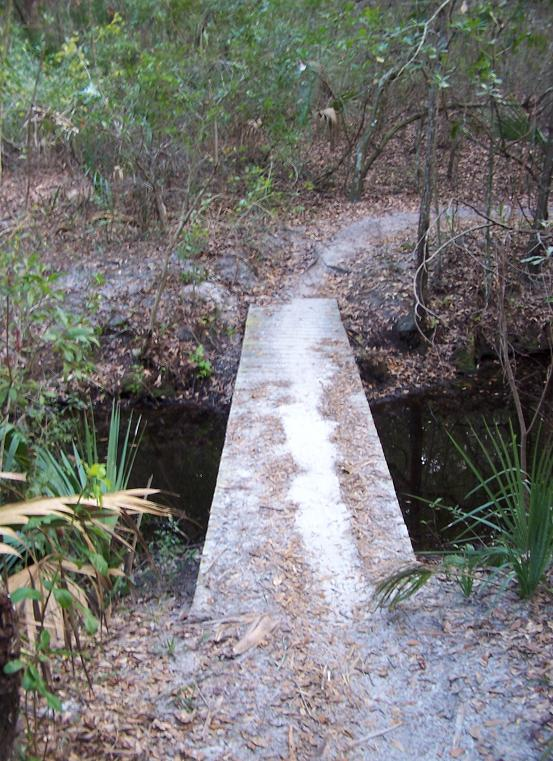 Trail bridge at Hanna Park, Florida, U.S.